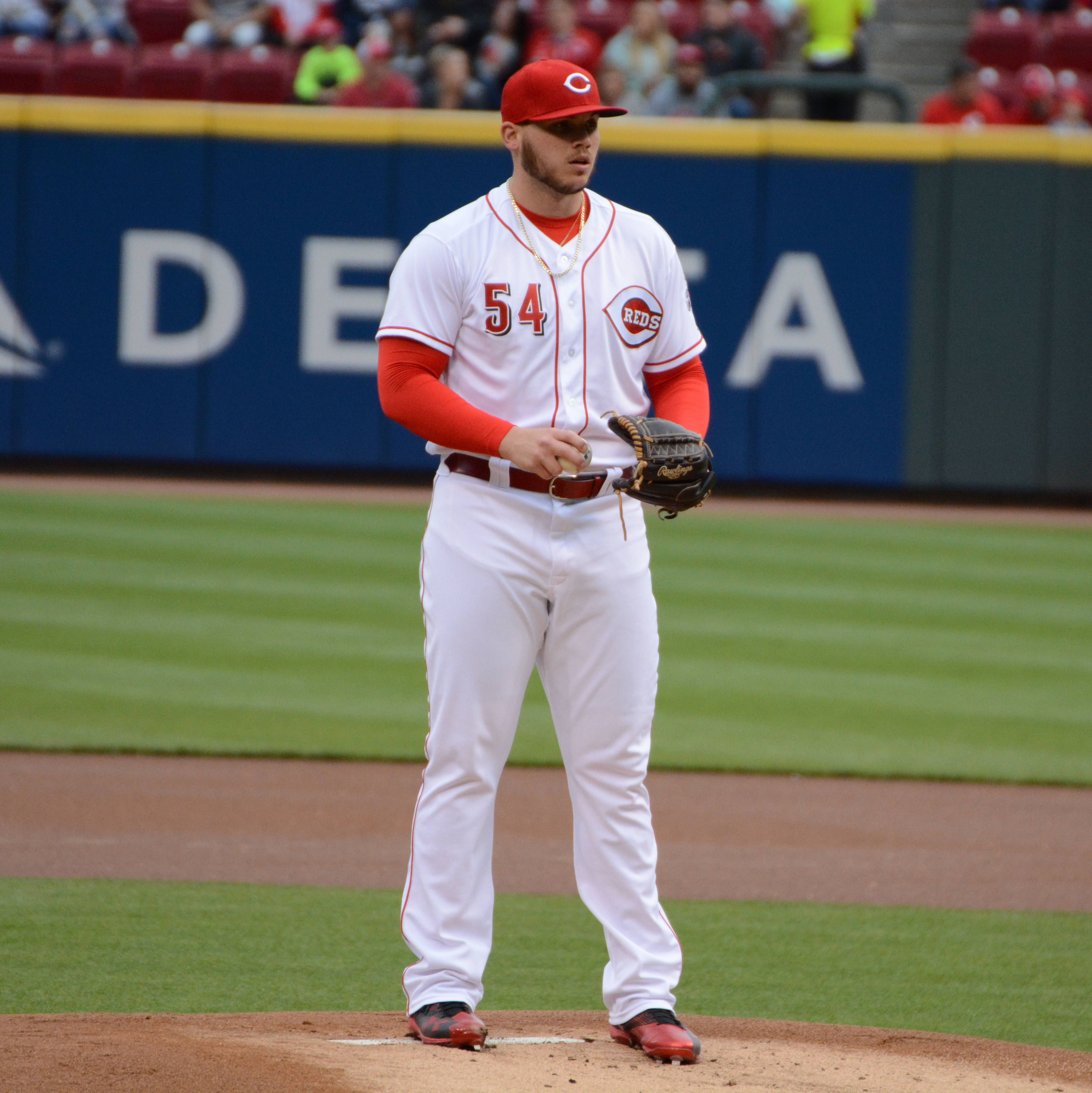 Rookie Davis on the mound at Great American Ball Park in May 2017.